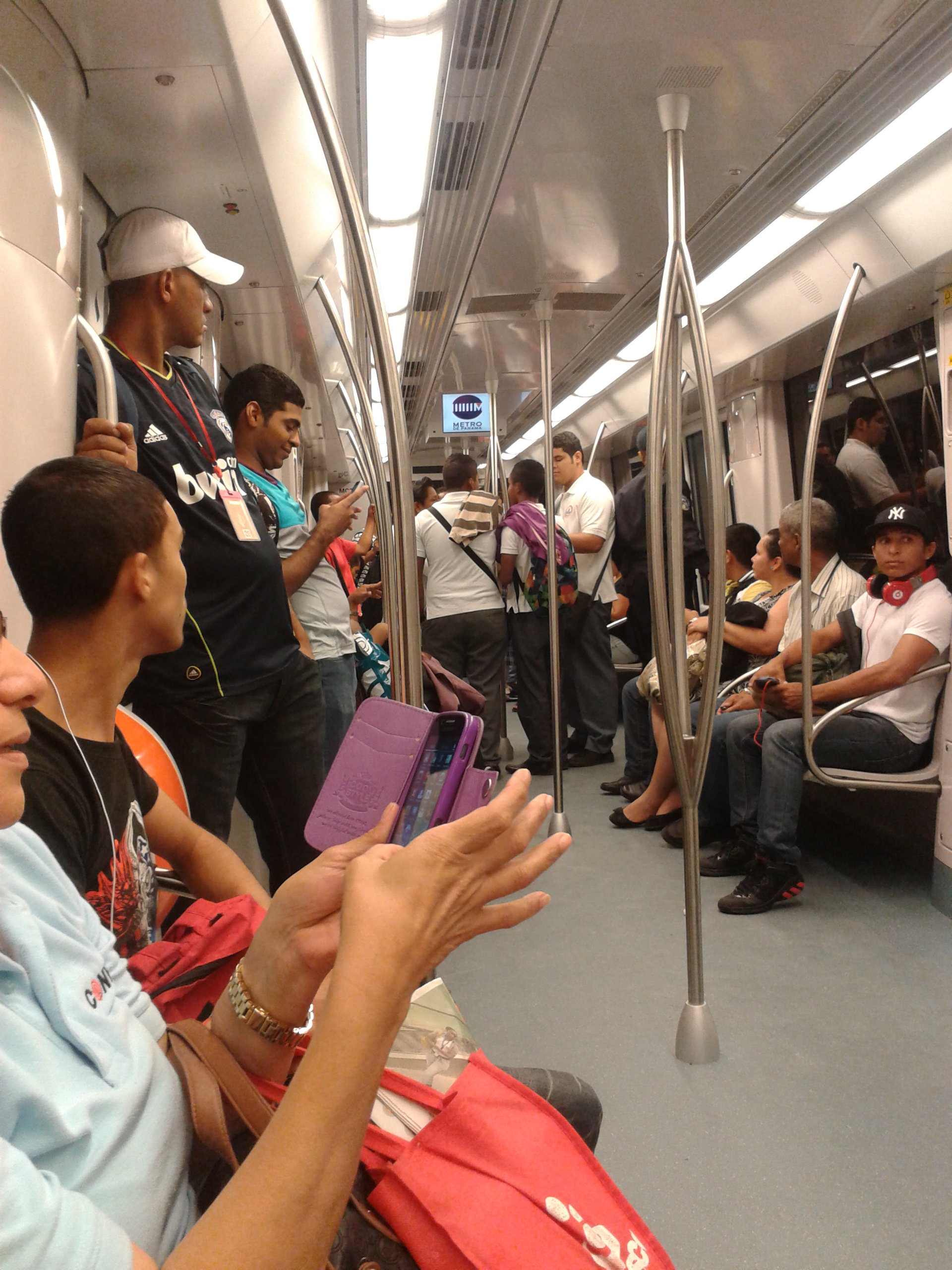 Another aspect of the interior of one of the Alstom Metropolis trains owned by the Panama Metro system.